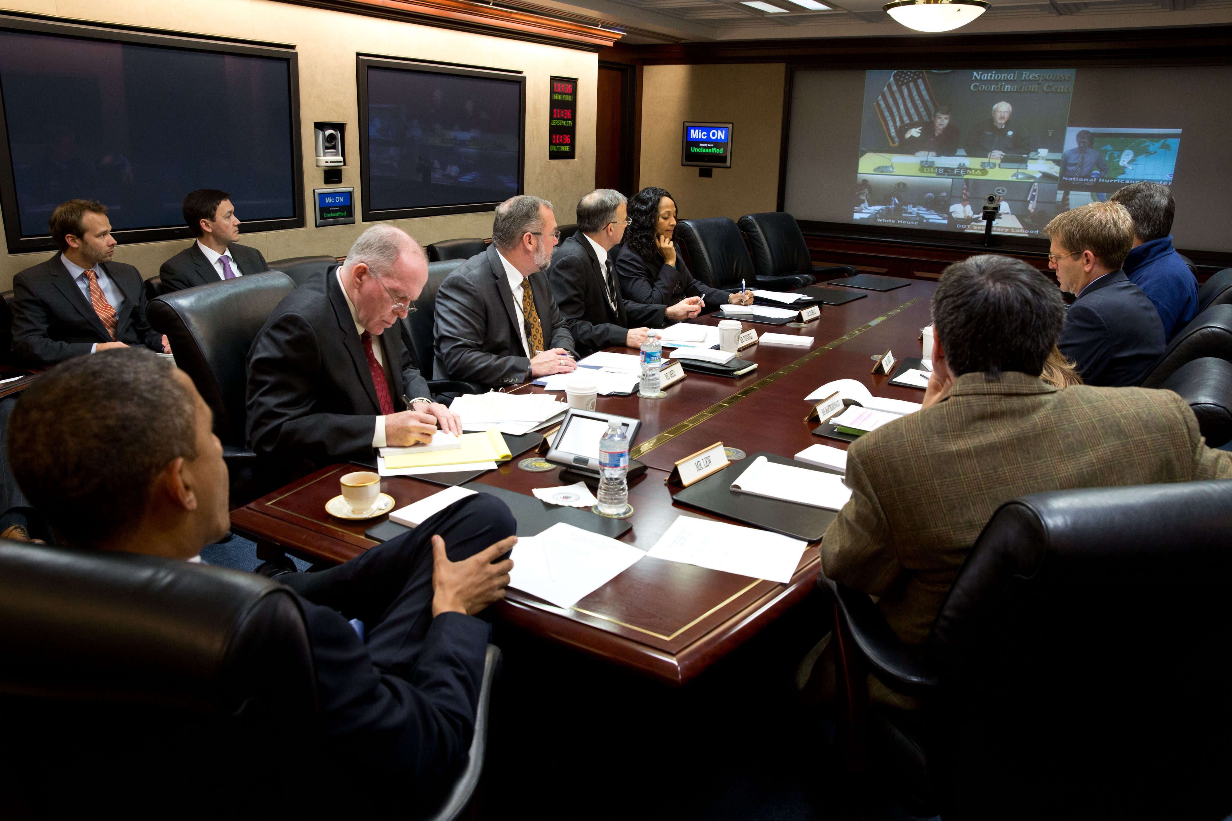 P102912PS-0185 – United States President Barack Obama is briefed on the response to Hurricane Sandy in the Situation Room of the White House on 29 October 2012. Participating via teleconference, clockwise from top left, are: Secretary of Homeland Security Janet Napolitano; FEMA Administrator Craig Fugate; Rick Knabb, Director of the National Hurricane Center; Secretary of Transportation Ray LaHood; and Secretary of Energy Steven Chu. Pictured, from left, are: Clark Stevens, Assistant Press Secretary; Emmett Beliveau, Director of the Office of the Chief of Staff; John Brennan, Assistant to the President for Homeland Security and Counterterrorism; Richard Reed, Deputy Assistant to the President for Homeland Security; Chuck Donnell, Senior Director for Resilience; Asha Tribble, Senior Director for Response; Chief of Staff Jack Lew; Alyssa Mastromonaco, Deputy Chief of Staff for Operations; Press Secretary Jay Carney; and David Agnew, Director for Intergovernmental Affairs.